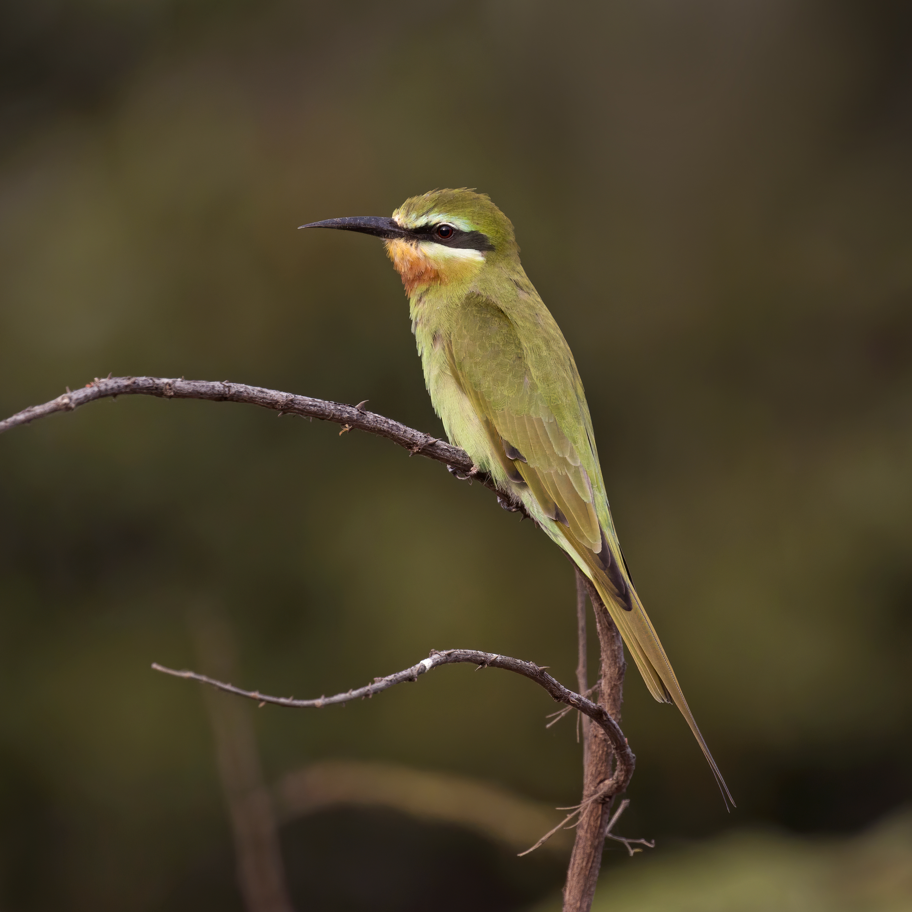 Blue-cheeked bee-eater (Merops persicus chrysocercus), Senegal